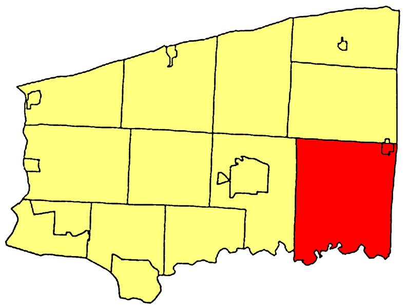 Location of the municipality in Niagara County, New York.